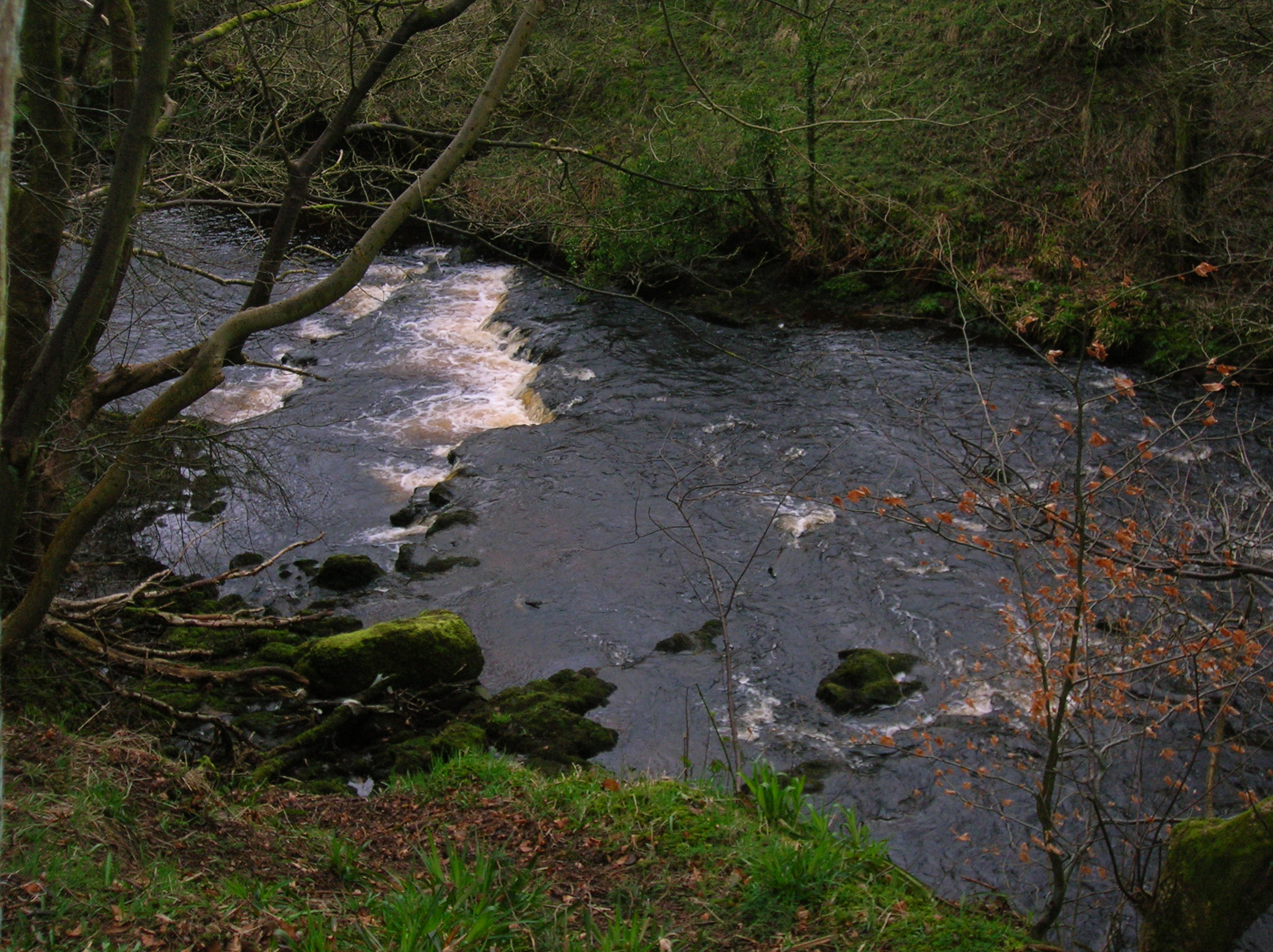 The Craufurdland Water